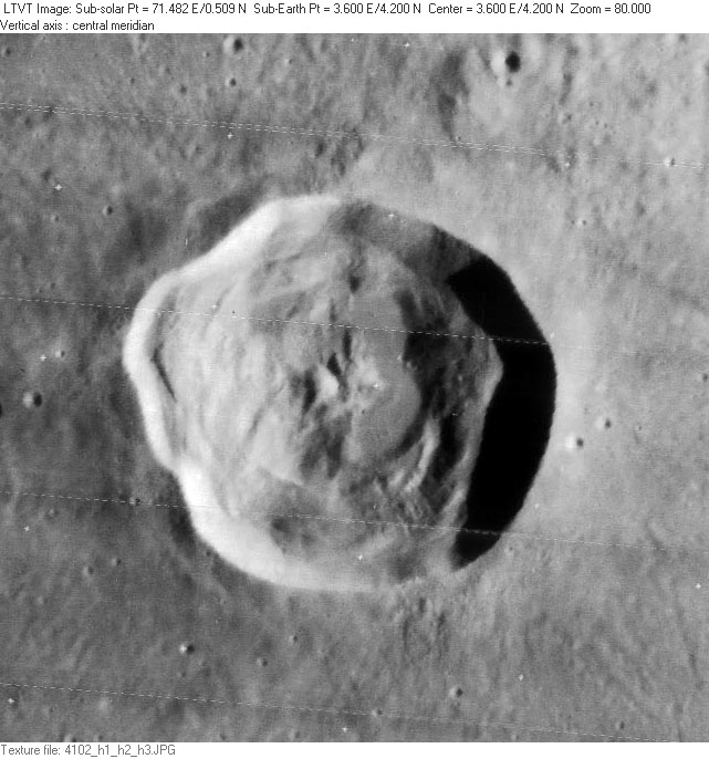 Moon crater Triesnecker. Detail from Lunar Orbiter IV-102H. High resolution scans from the USGS Lunar Orbiter Digitization Project remapped to a north-up aerial view by LTVT.